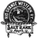 logo for the Rio Grande Western Railway, the Utah portion of the D&RGW system.